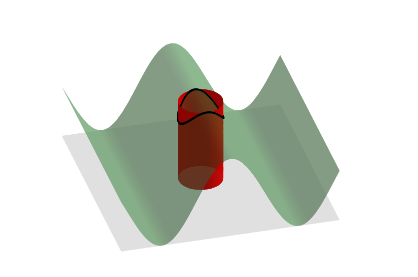 Visualization of the Estimation lemma. Since a complex line integral can be thought of as the area between the function surface (green) and the complex plane (grey), the Estimation lemma gives an upper bound for the area since it calculates the area of a surface with constant height (red) where the height is always greater than or equal to the height of the function.